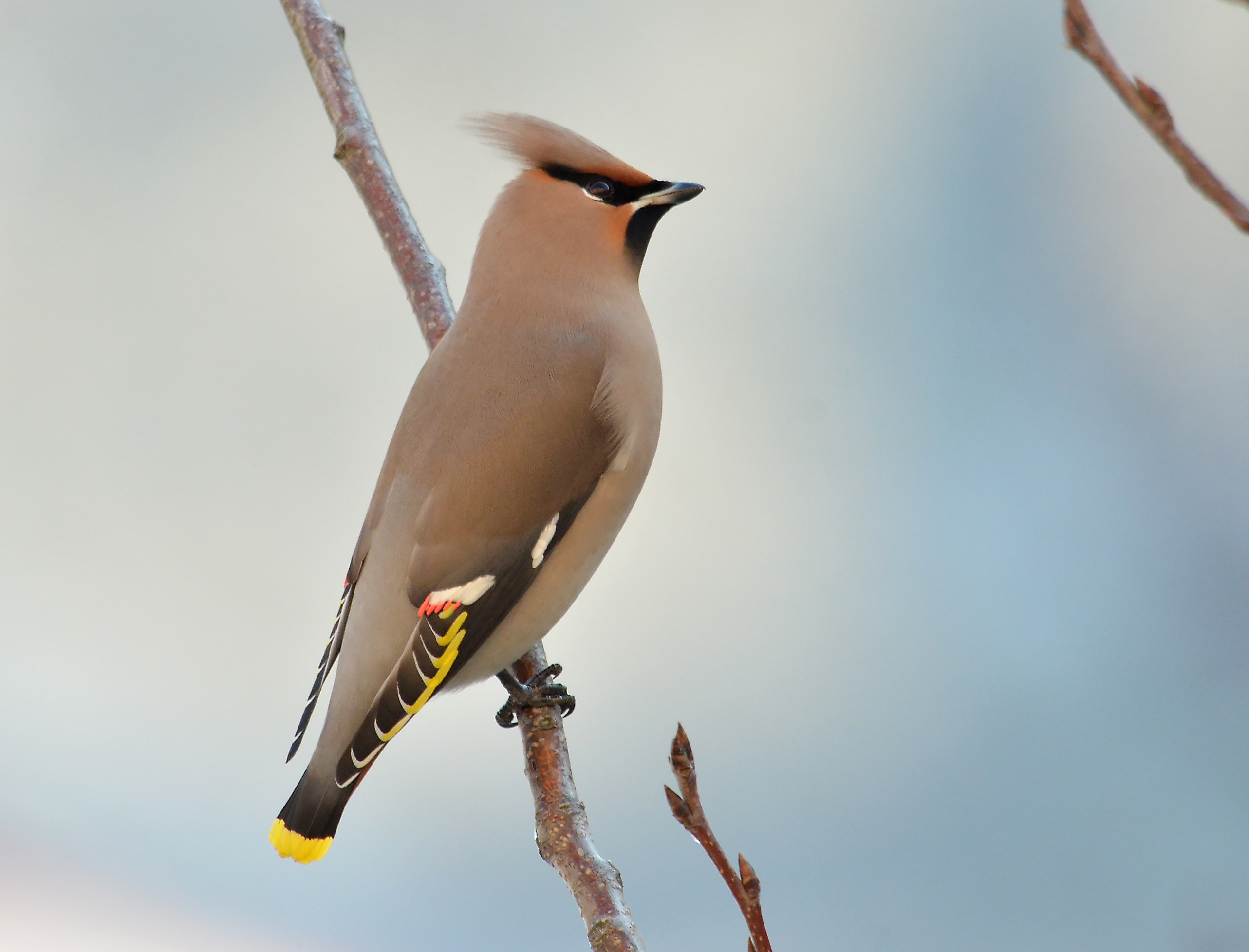 Waxwing Bombycilla garrulus, Saint Petersburg, Russia